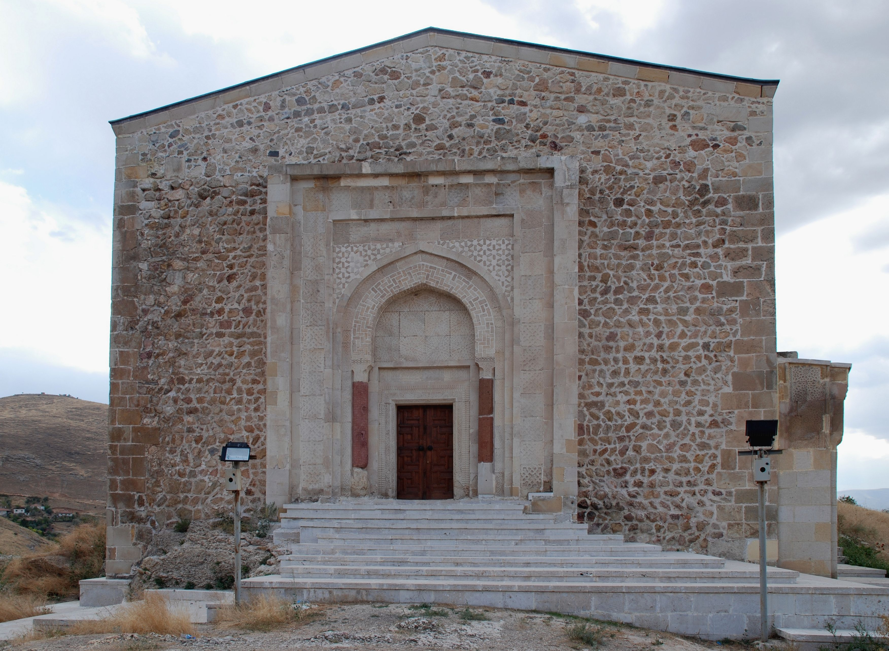 Divriği, Sivas province, north side mosque in citadel